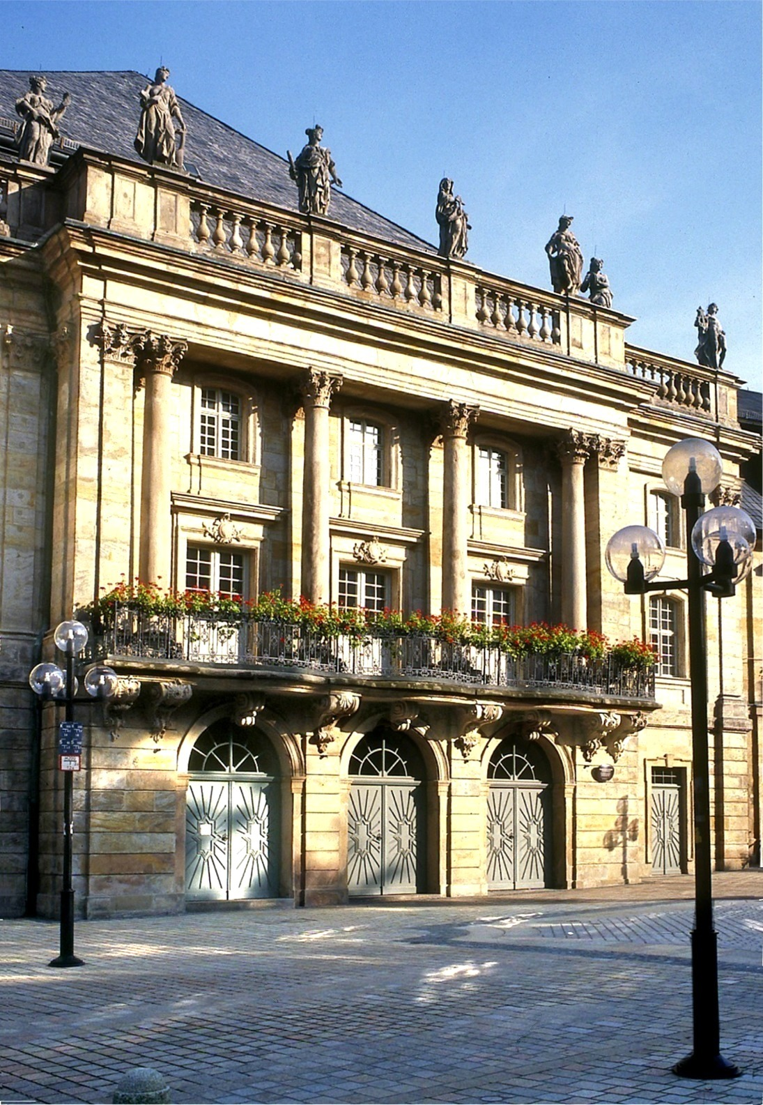 Margravial Opera House in Bayreuth, Germany